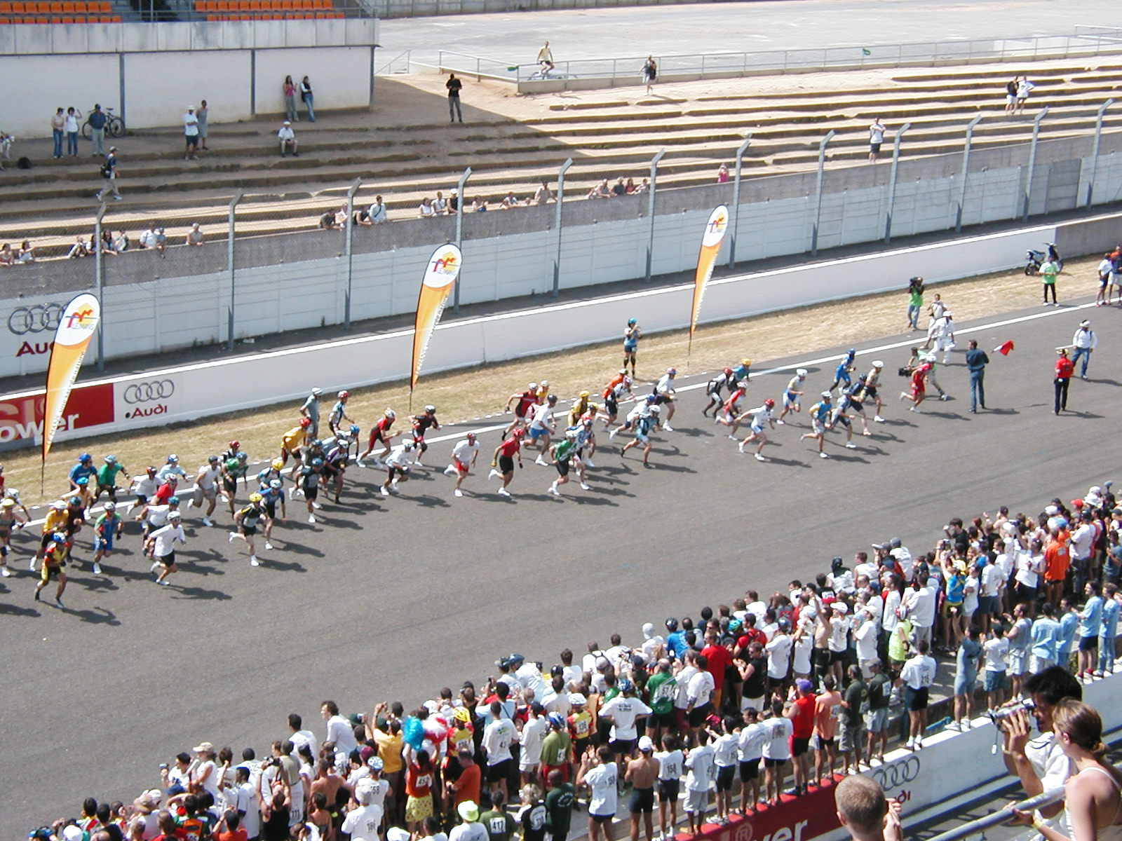 Start of the "24h rollers du Mans" (in 2003)